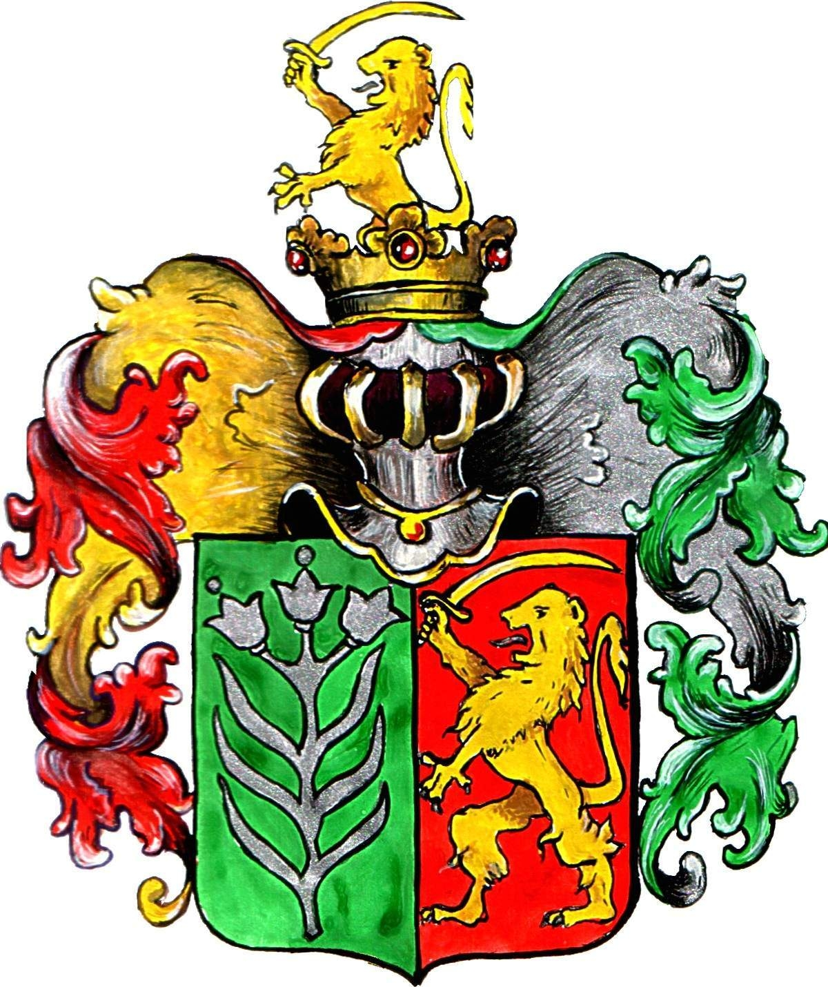 Crest of Csenger